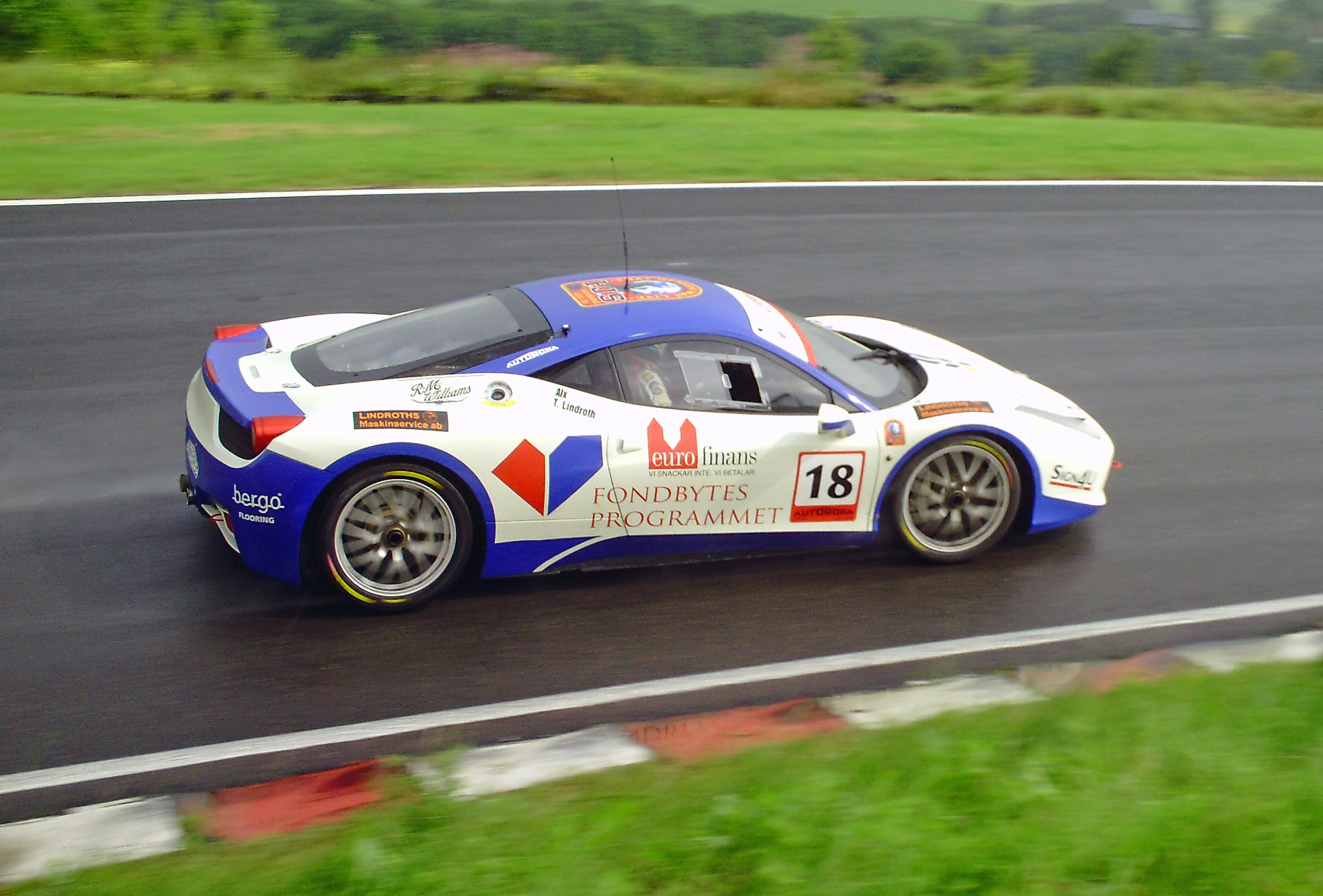 A Ferrari 458 Challenge driven by Alexander "Alx" Danielsson and Tommy Lindroth for Scuderia IKC Autoropa in Swedish GT Series at Falkenbergs Motorbana, 2011